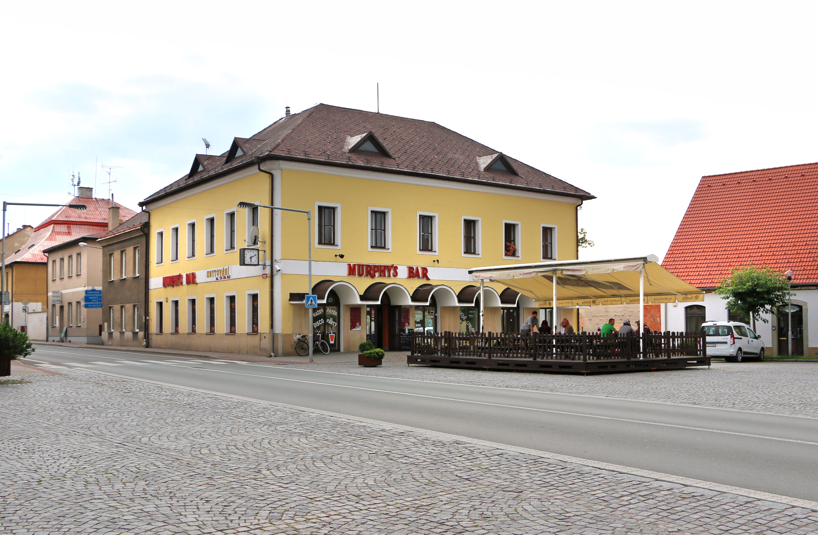 Náměstí square in Borohrádek, Czech Republic.